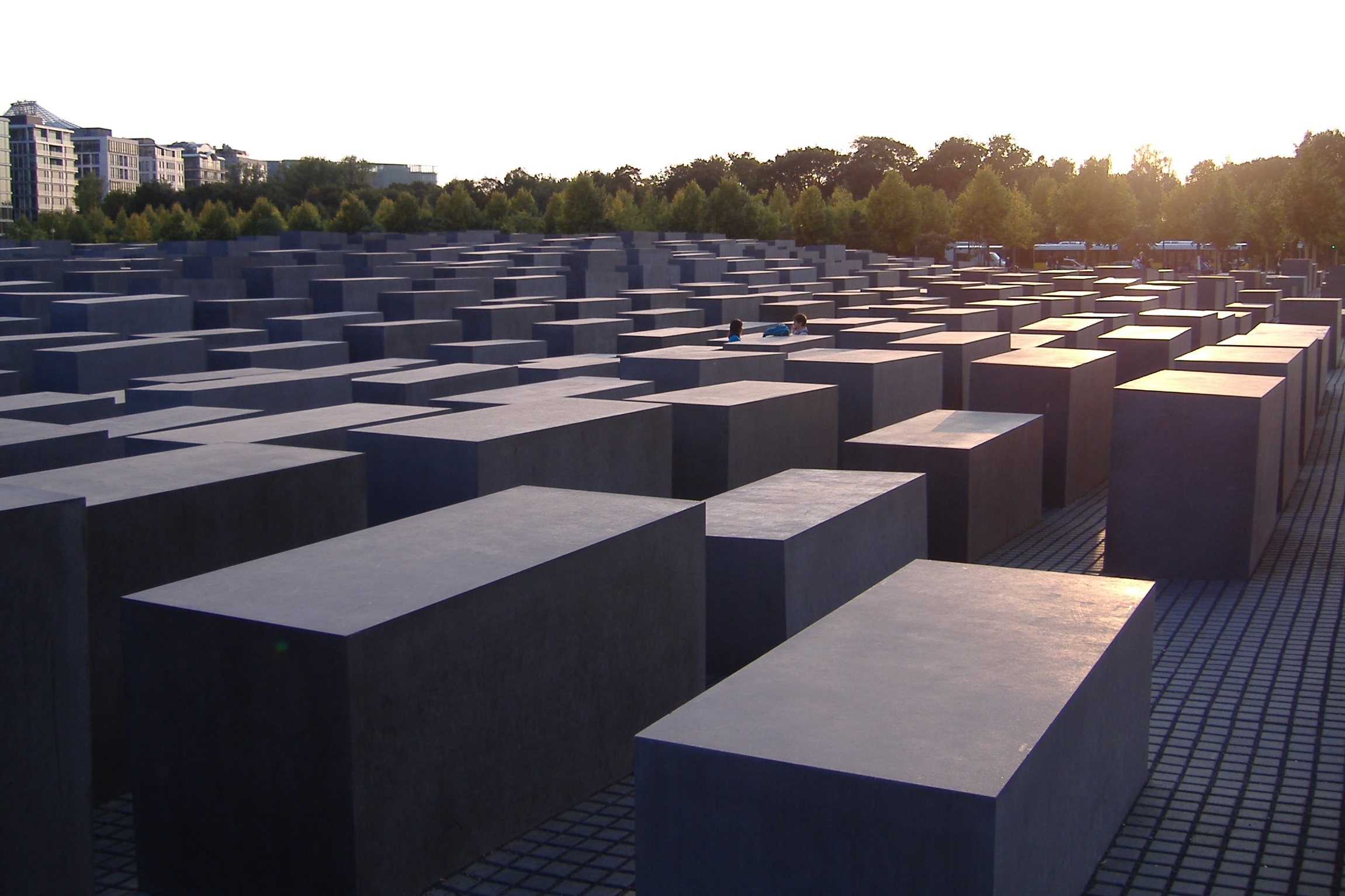 Berlin - Memorial to the Murdered Jews of Europe at sunset